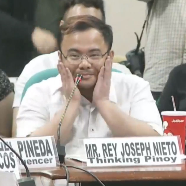 RJ Nieto during the October 4, 2017 Philippine Senate hearing on the Proliferation of Fake and/or Misleading News and False Information